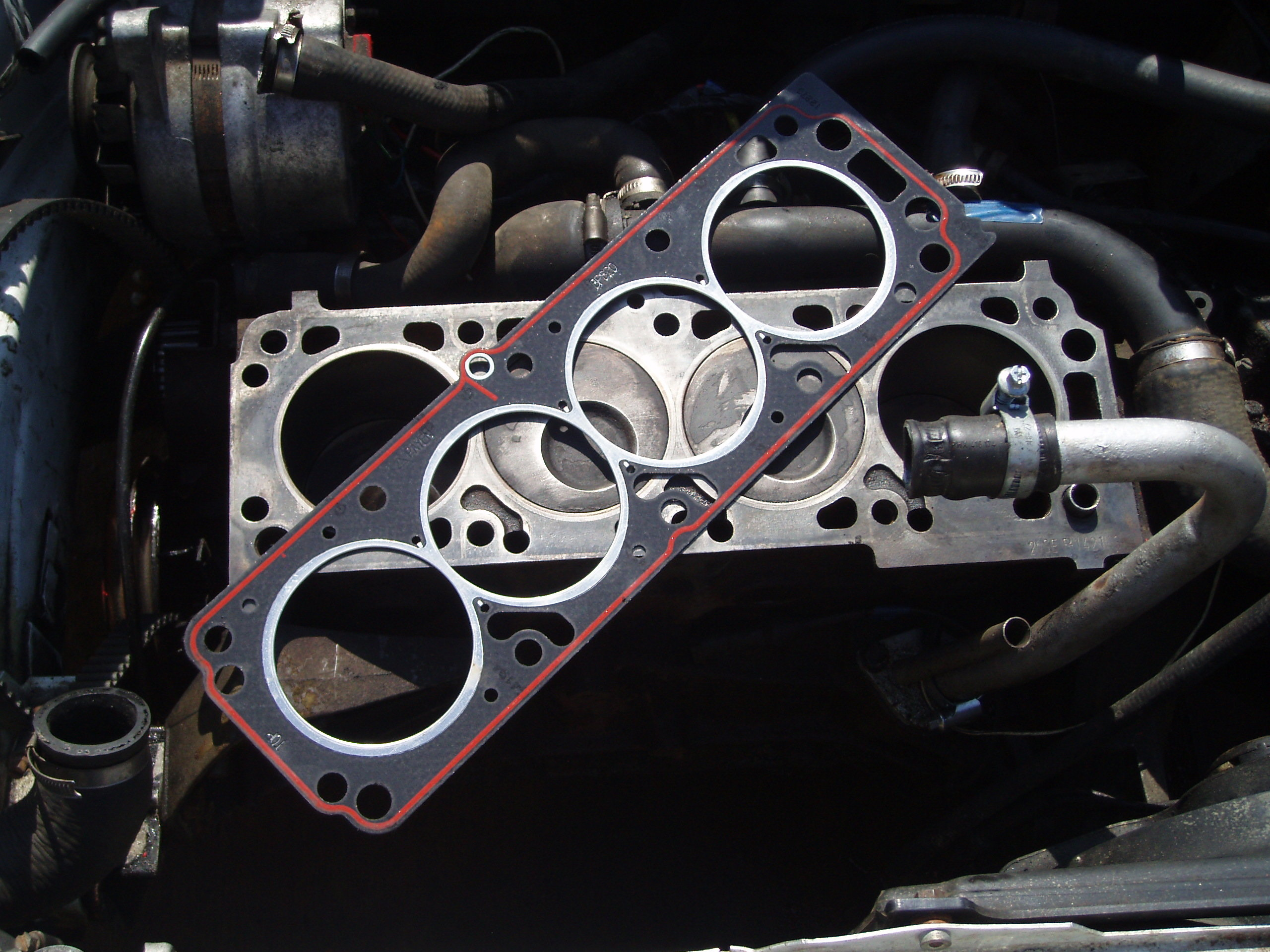 A head gasket sitting atop the engine of a 1989 Vauxhall Astra.